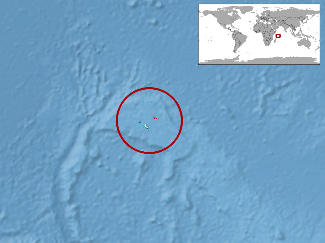 geographic distribution of Ailuronyx tachyscopaeus (Native: Seychelles)